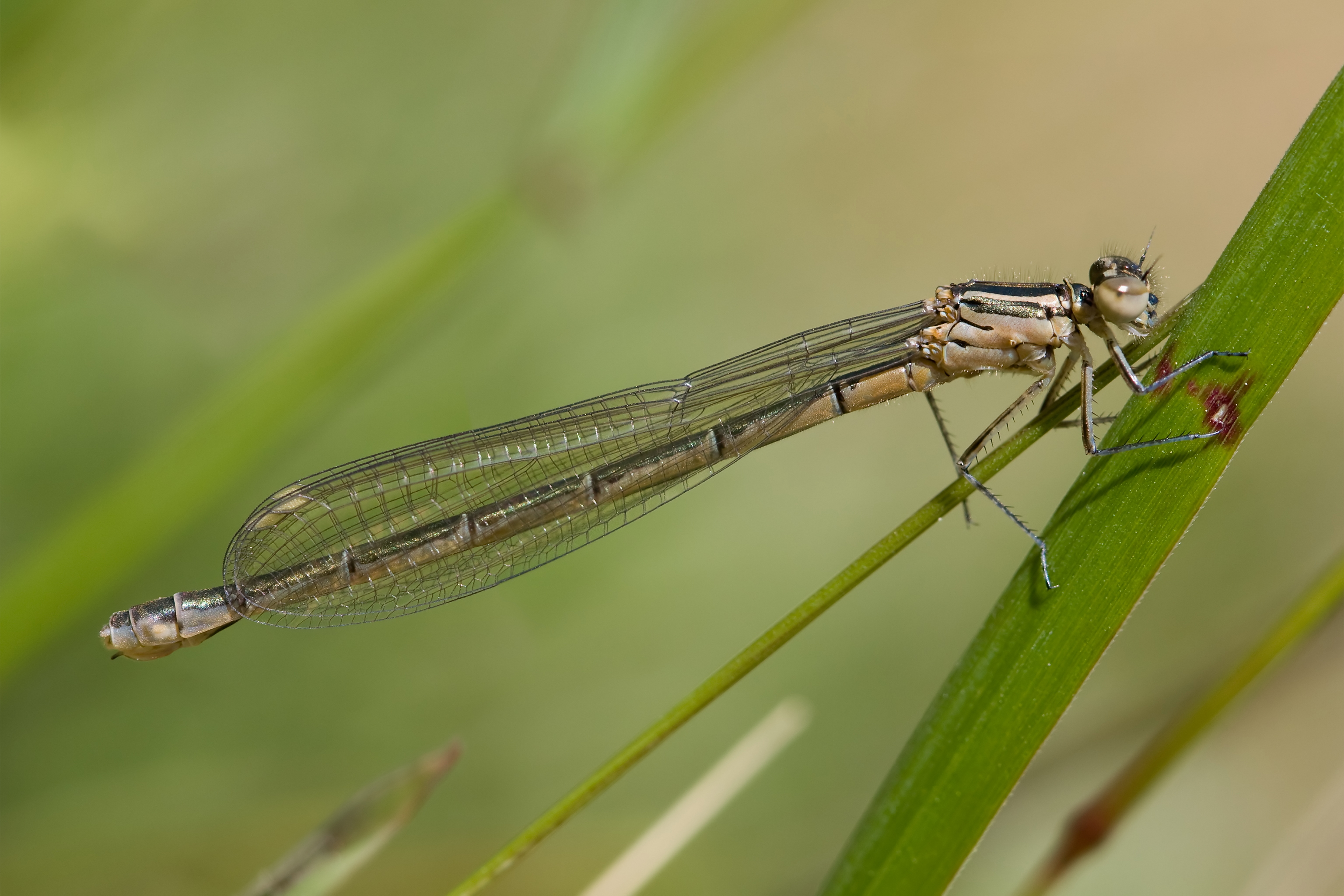 A teneral, still colorless female of the Northern Damselfly (Coenagrion hastulatum) in the Ahlenmoor, a peatland in northern Lower Saxony, Germany. The ripe damselfly will show a green colouring with black markings, typical for female Northern Damselflies.